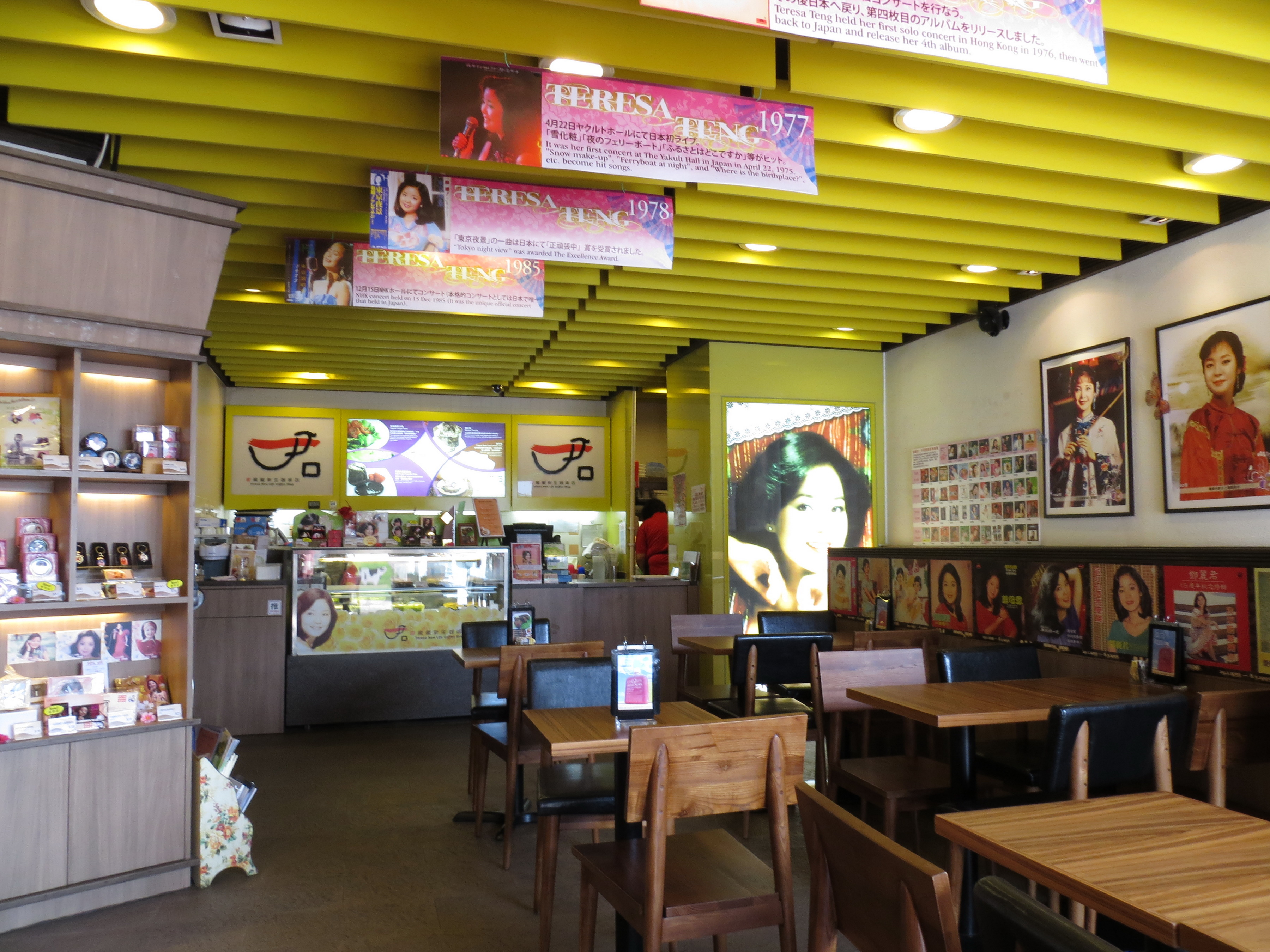 Teresa New Life Coffee Shop, Tsim Sha Tsui, Kowloon, Hong Kong, China